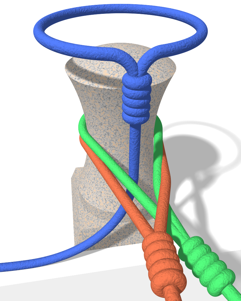 3D computer rendering of a mooring bollard with two ropes correctly attached to the bollard, and a third being attached, also in the correct manner; Up through the loop of all other ropes before the new rope is strung around the bollard. The advantage to this is that any attached rope can be freed without having to remove any of the other ropes first.